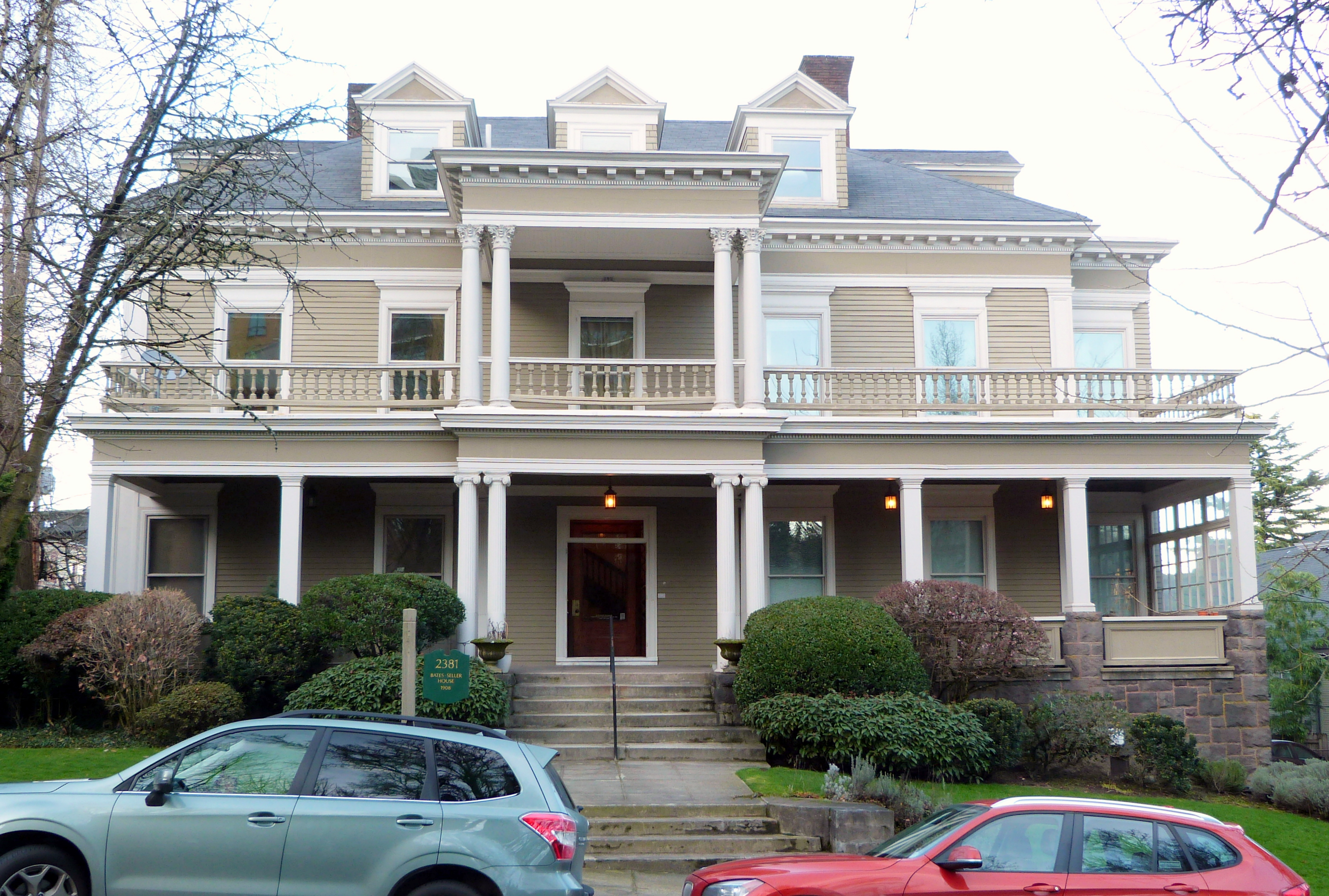 The historic Bates–Seller House (built 1908), located at 2381 Northwest Flanders Street in Portland, Oregon, United States, is listed on the US National Register of Historic Places. It is additionally listed as a contributing resource in the National Register-listed Alphabet Historic District.